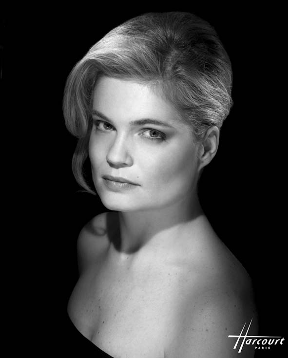 Sarah Biasini photographed by Studio Harcourt Paris